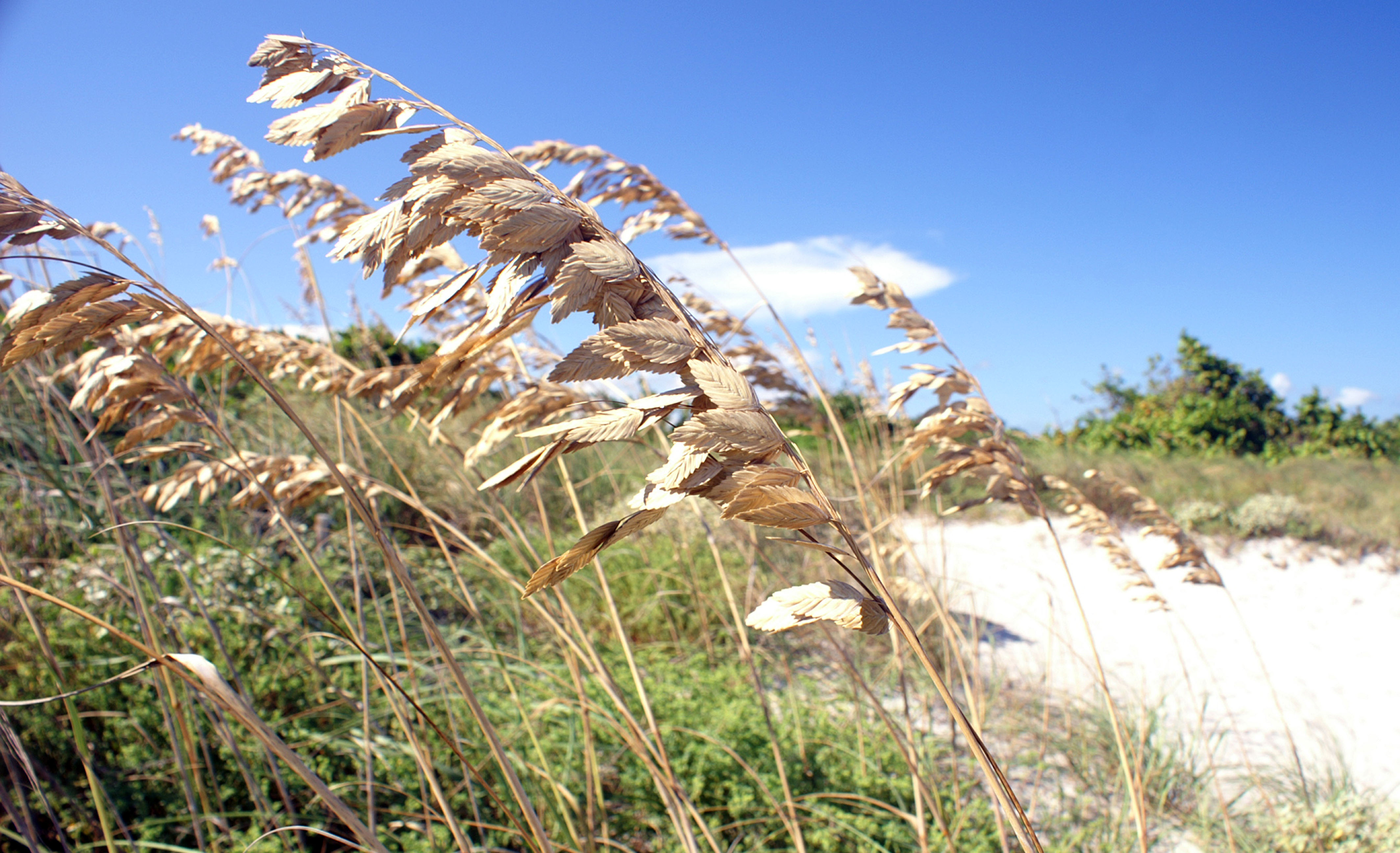 Sea Oats, Uniola paniculata